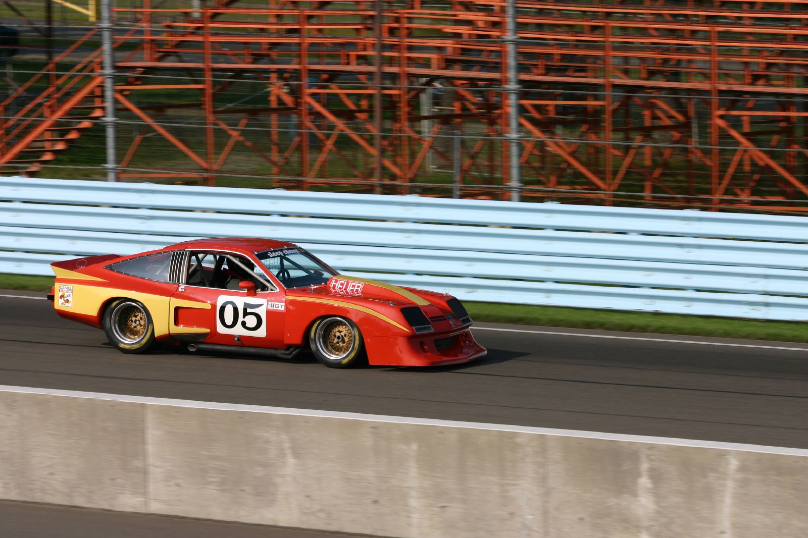 05 - 1975 Chevrolet Monza Driven by Garry Lefever of East Berlin, PA